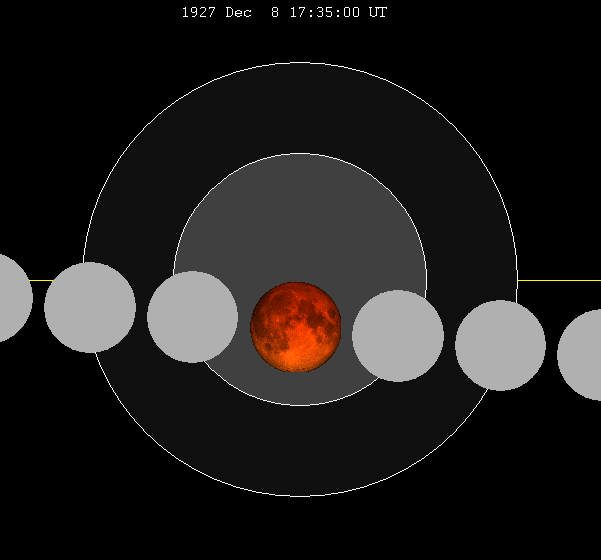 =lunar eclipse chart of moon's path through the earth's shadow. thumb